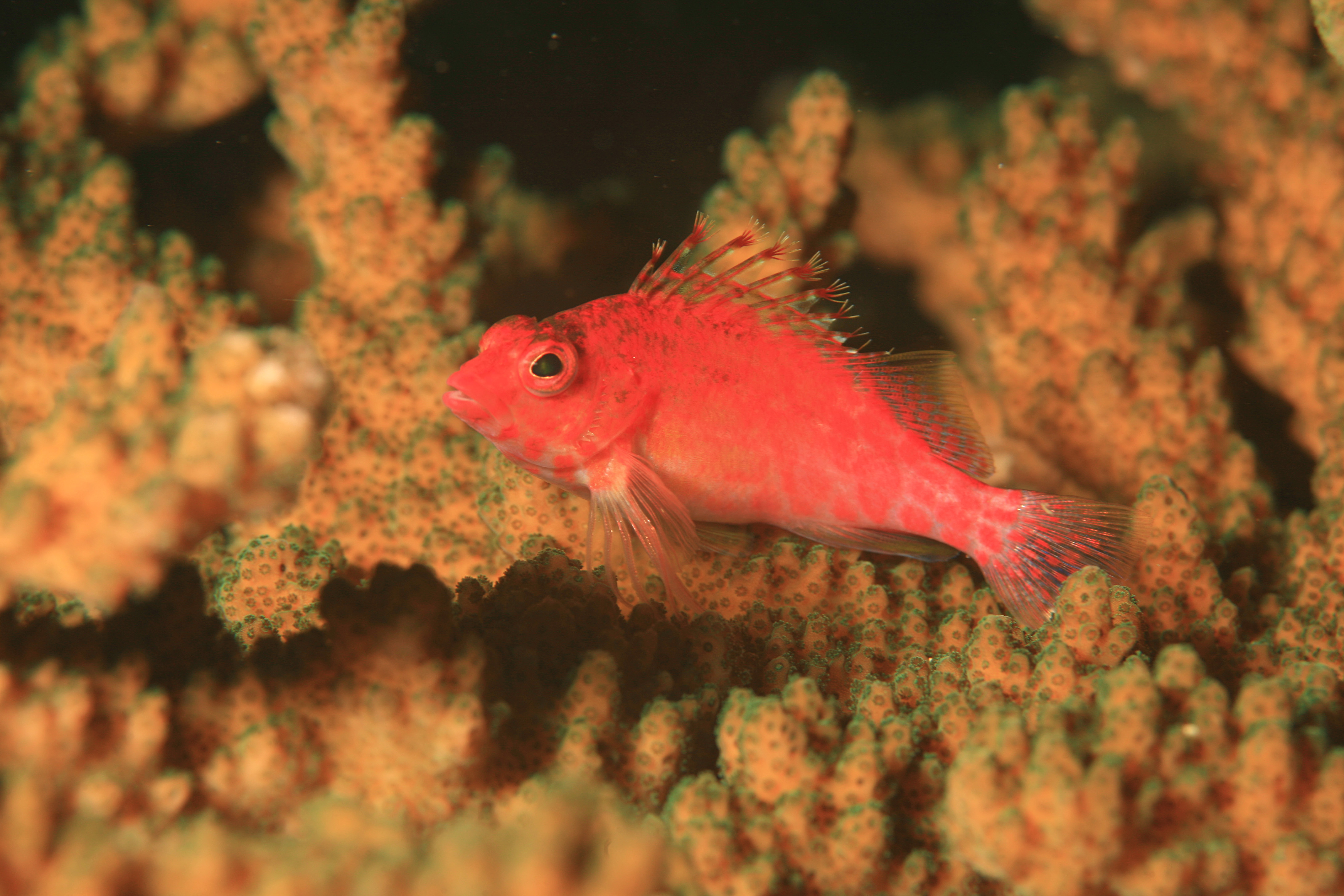 The Coral Hawkfish (Cirrhitichthys oxycephalus) is a common species, usually found resting on or between the coral branches of the Panamanian reefs. Photographed at Machete dive site in the Coiba National Park, Panama.